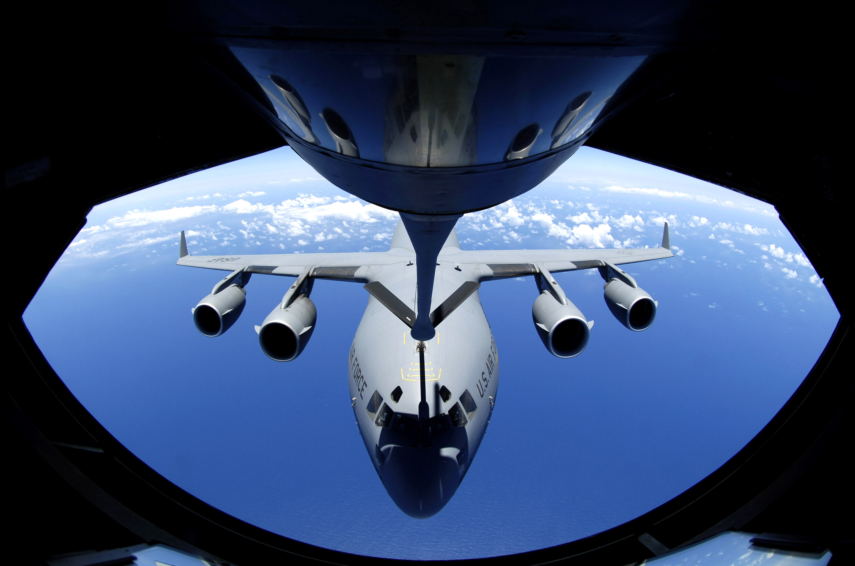 A C-17 Globemaster III approaches the boom of a KC-135 Stratotanker June 18 during aerial refueling practice. A KC-135 Stratotanker from the 909th Air Refueling Squadron, at Kadena Air Base, Japan is at Hickam Air Force Base, Hawaii, practicing with a C-17 Globemaster III from the 535th Airlift Squadron for the Air Mobility Command Rodeo.